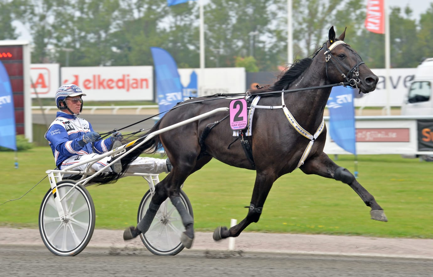 Trotter Ivar Sånna and driver Thomas Uhrberg.